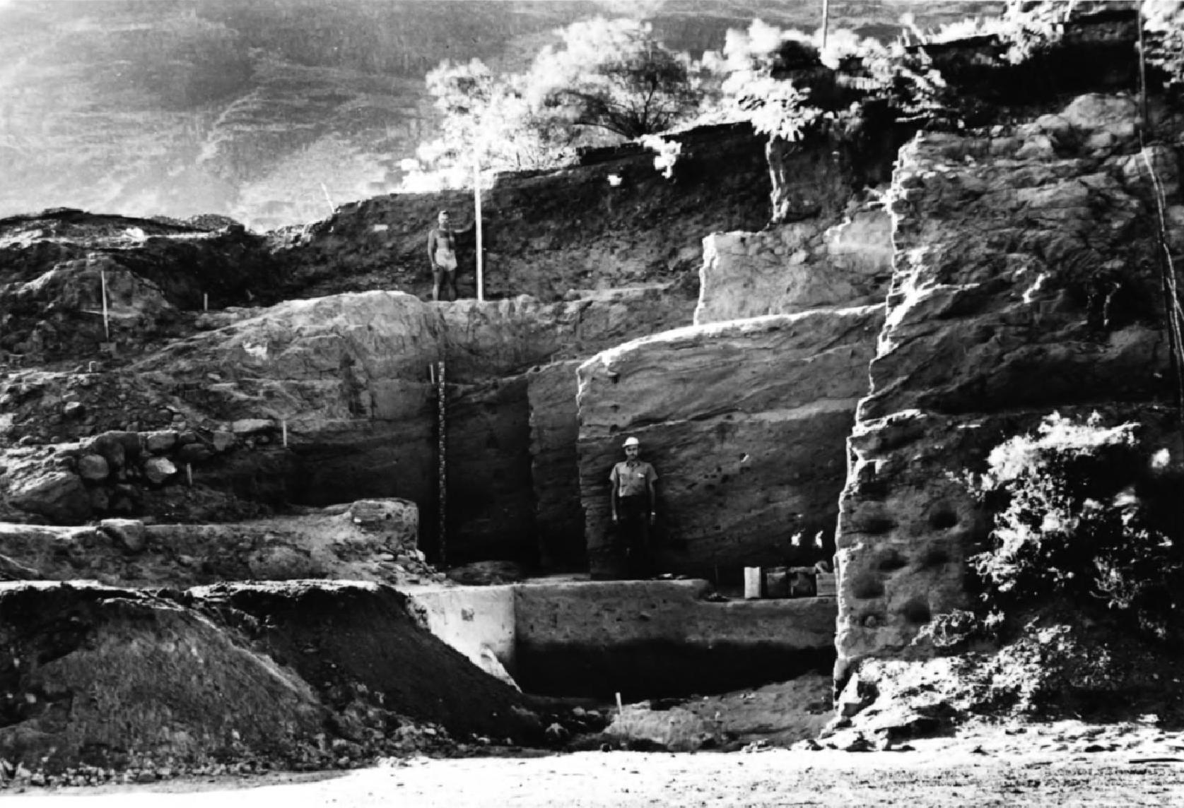 The Fivemile Rapids Site, located in Wasco County, Oregon, United States, is an archeological site listed on the US National Register of Historic Places.